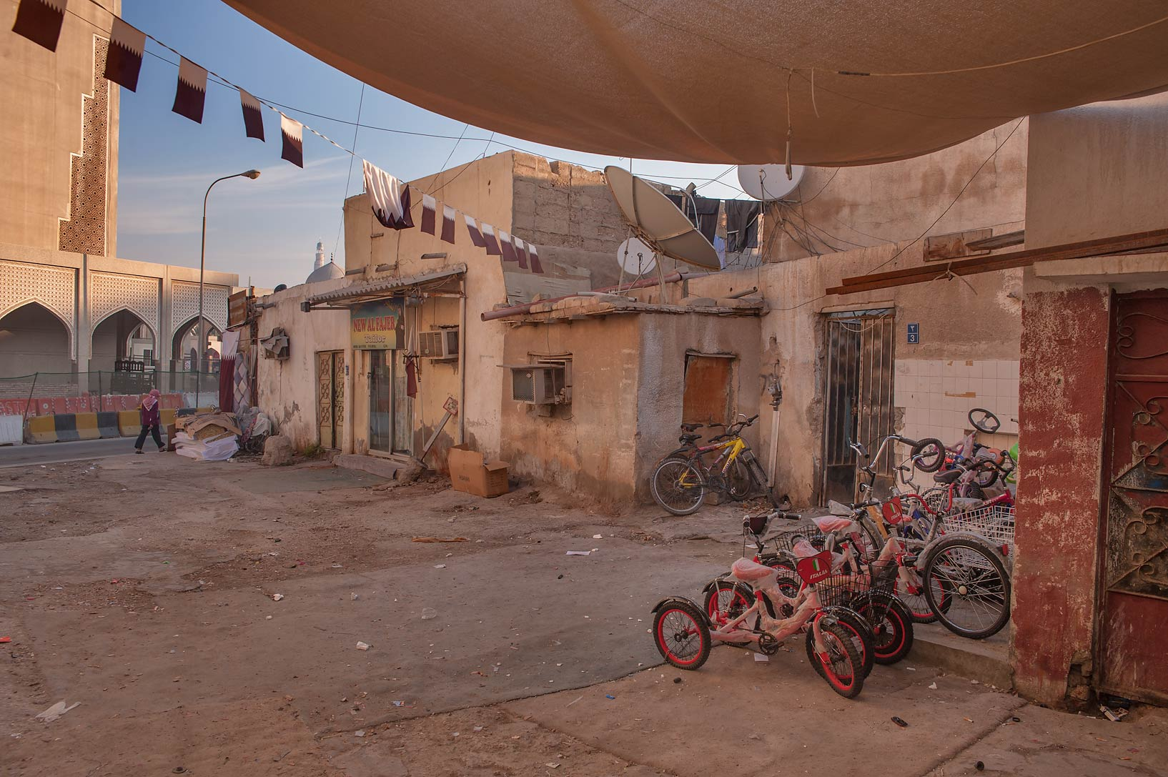 Sikkat Al Ihsan Street in Al Najada neighborhood of Doha, Qatar.